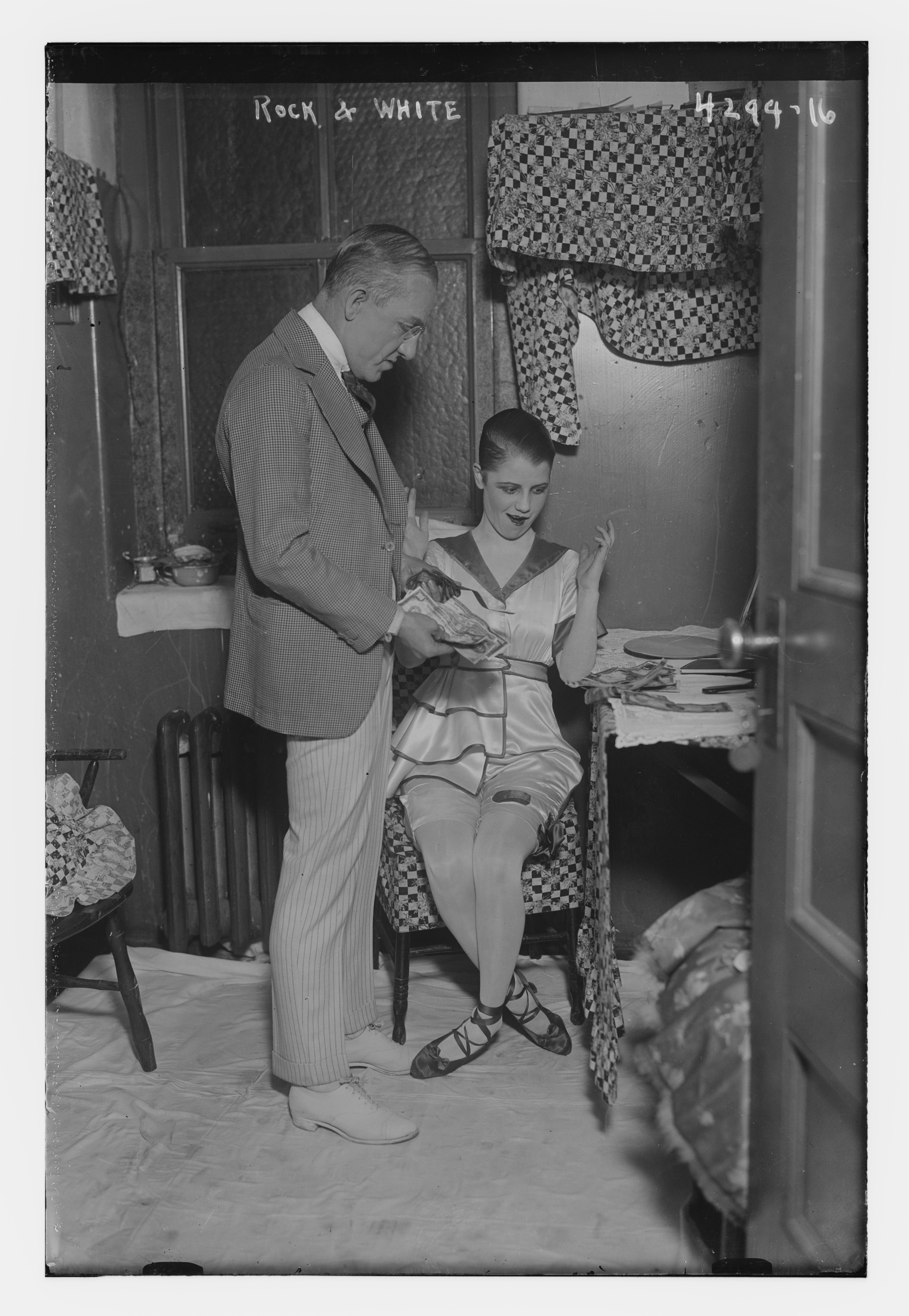 William Rock (1875-1922) and Frances White (1898-1969) in 1917